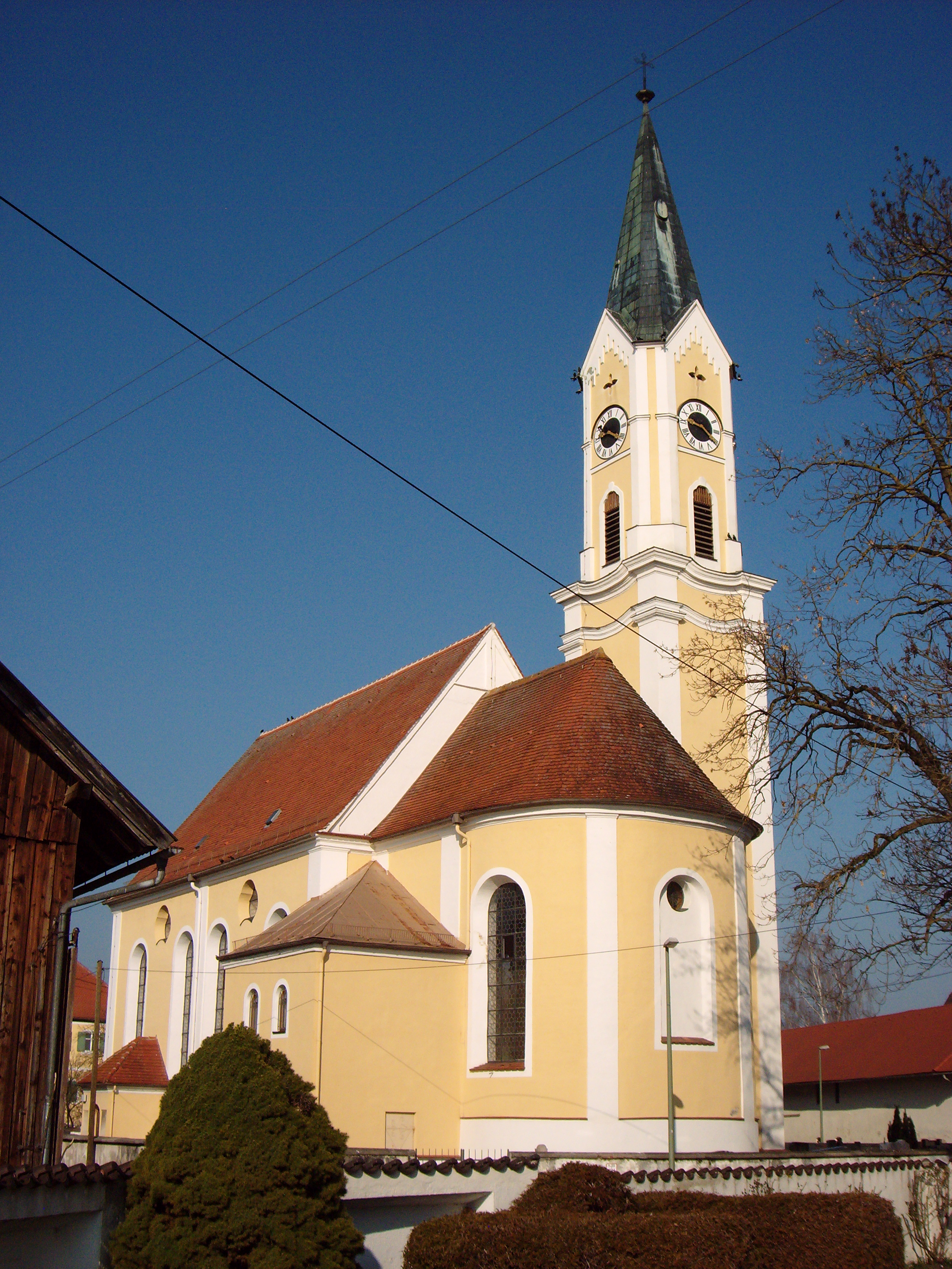 Igling, Church St. Johannes der Täufer in Unterigling